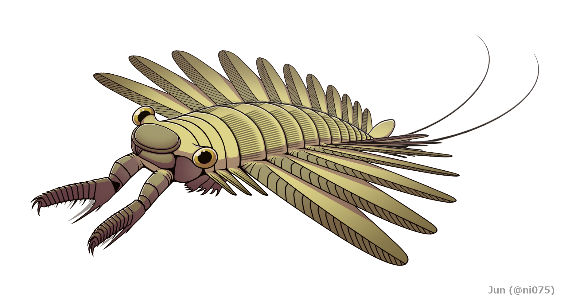 Reconstruction of Amplectobelua symbrachiata, a cambrian Amplectobeluid radiodont (dinocaridid、stem-group arthropod). Eyes and tail fan are conjectural.